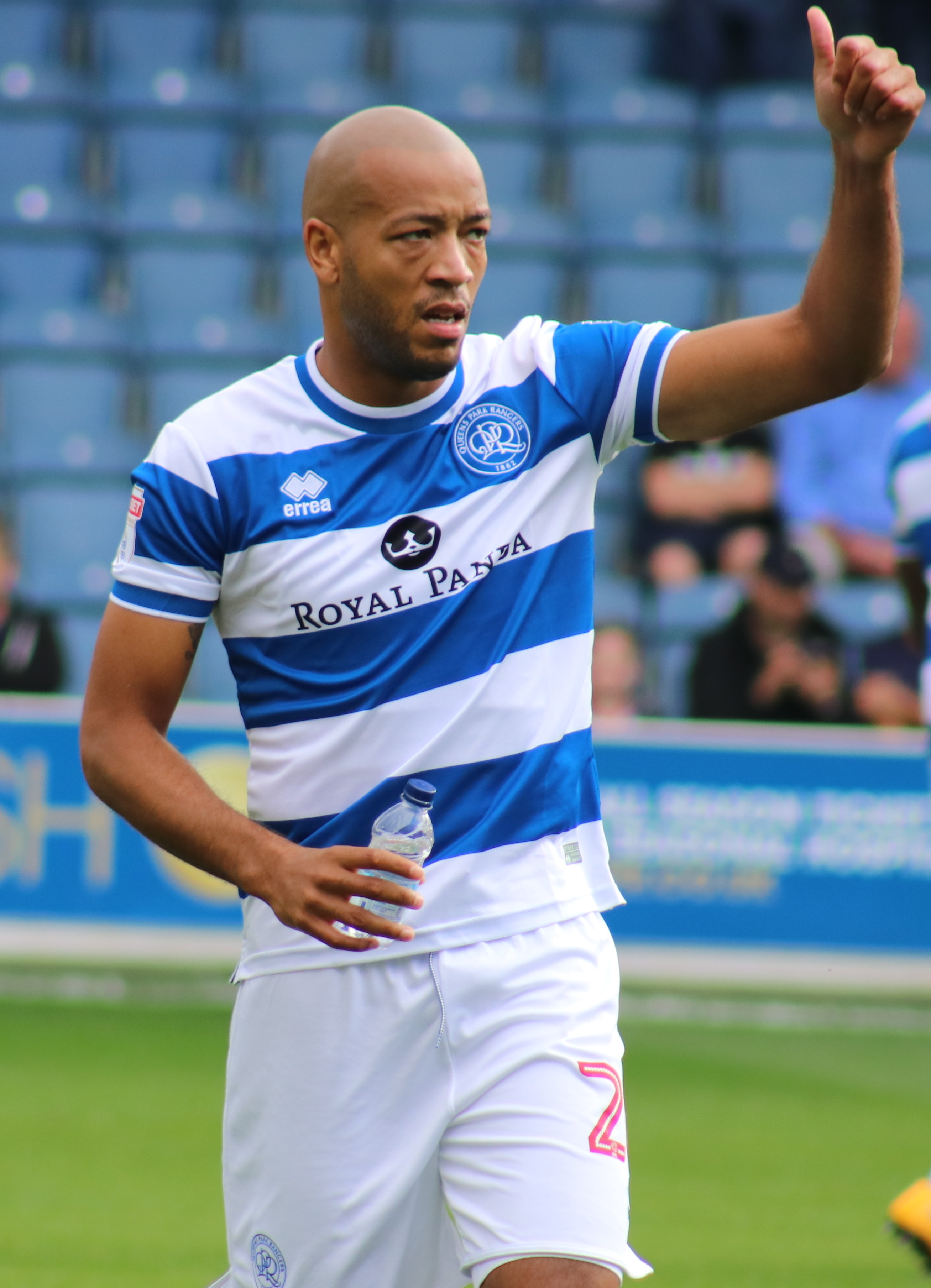 Alex Baptiste in action for Queens Park Rangersphoto taken at Queens Park Rangers v Hull City